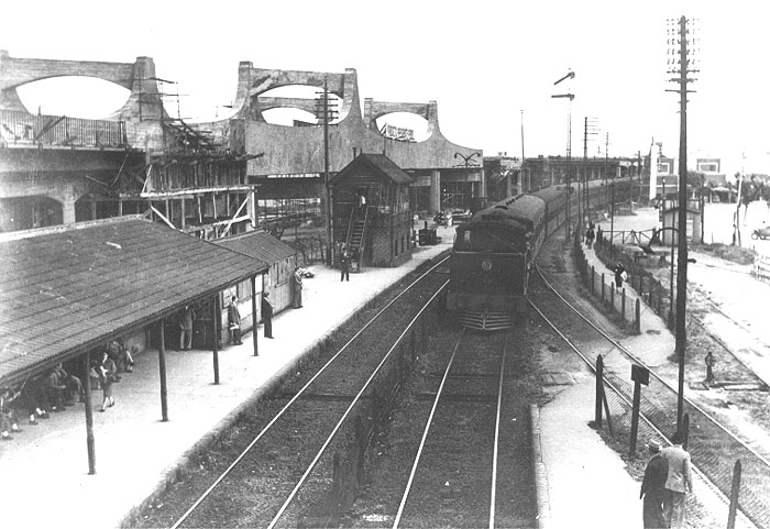 Sarandí railway station, originally part of Buenos Aires and Ensenada Port Railway.